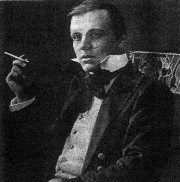 Photography of Hanns Heinz Ewers